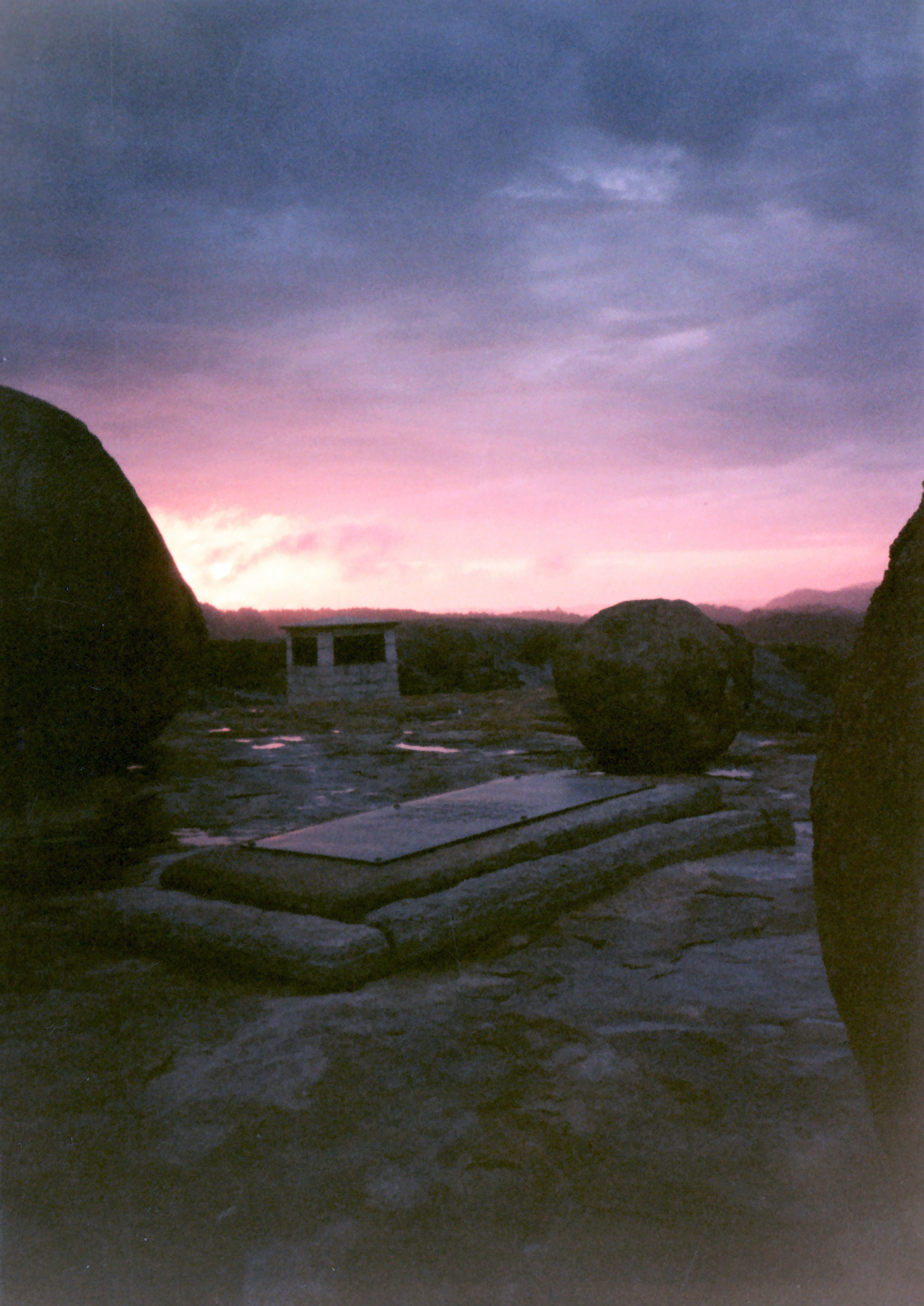 Cecil Rhodes grave at sunrise, Matopas National Park, Zimbabwe. January 1996